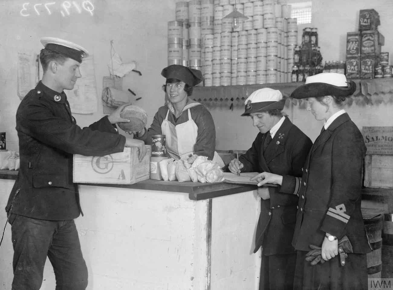 The Women's Royal Naval Service on the Home Front, 1917-1918 Members of the WRNS serve rations at the Royal Marine barracks at Chatham.